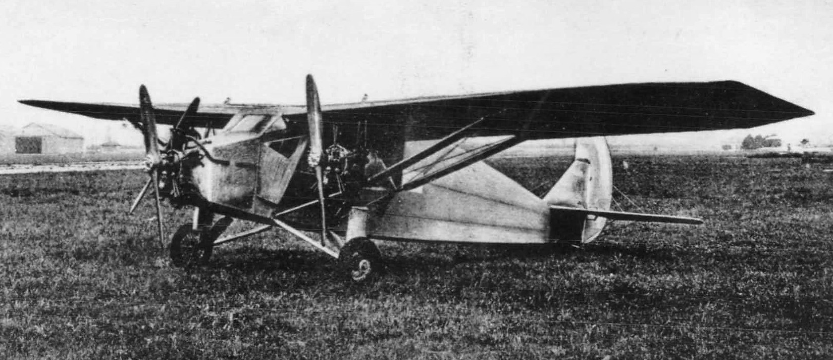 Caproni Ca.97 photo from NACA Aircraft Circular No.84